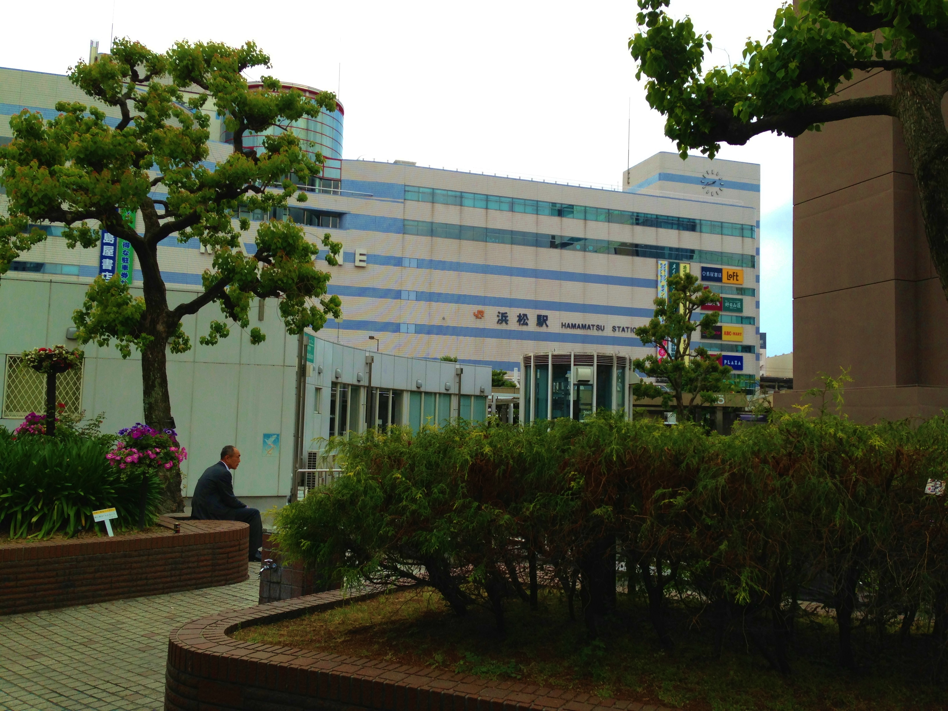 Hamamatsu Station